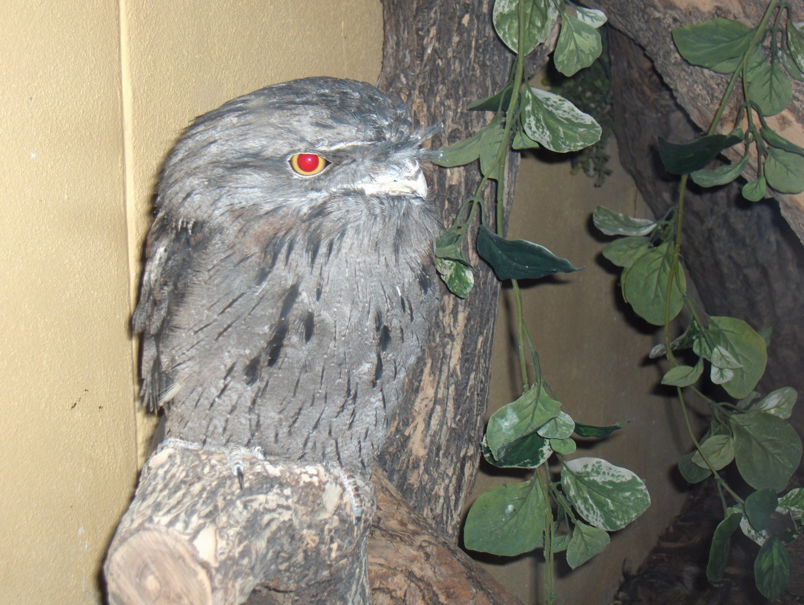 Tawny Frogmouth in Denver Zoo